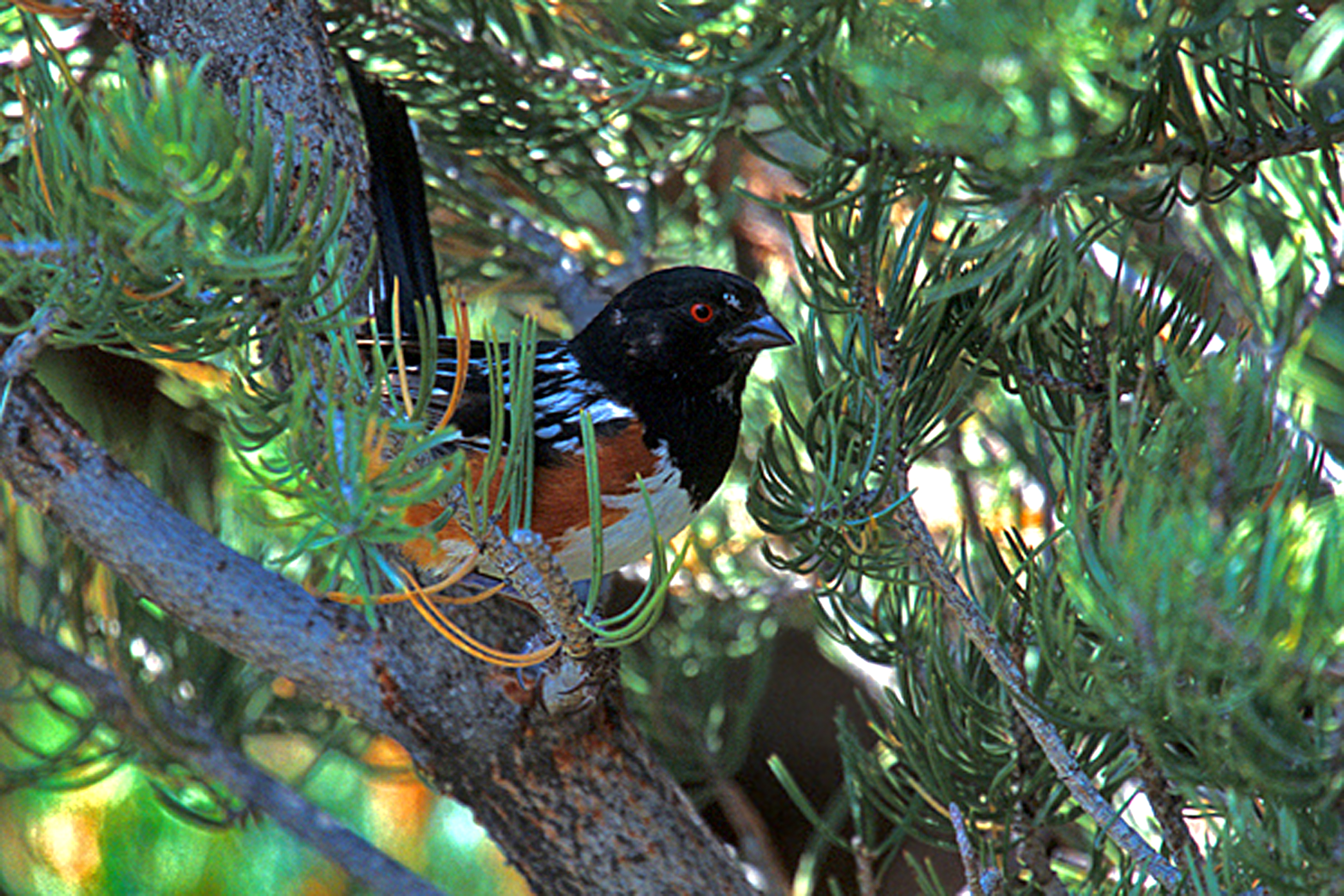 Spotted Towhee. Photo copywritten by Peter Wallack and taken at Padres Peak, Santa Fe, New Mexico.